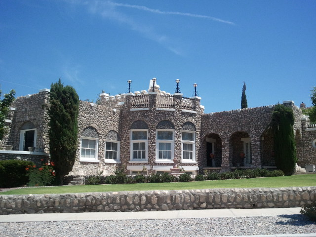 Kern Place